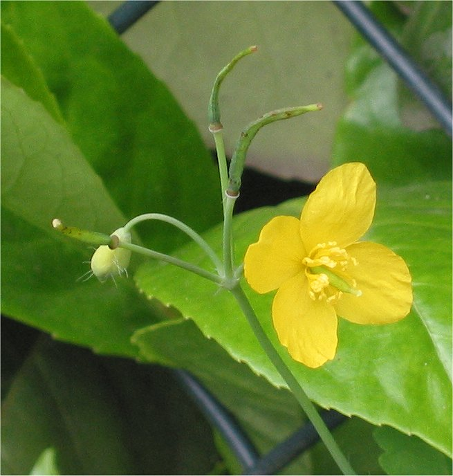 greater celandine